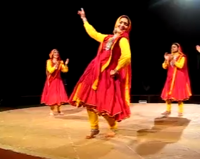 Tradational dance of Solan distt. Pahari Gidda